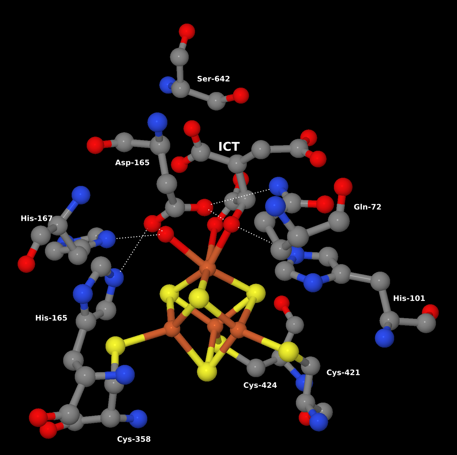 3d ball-and-stick model of pig aconitase catalytic center with isocitrate (ICT) and hydroxyl bound to iron-sulfur-cluster, after PDB 7ACN, with hydrogen bonds. Ref.: Robbins AH, Stout CD (May 1989). "Structure of activated aconitase: formation of the [4Fe-4S] cluster in the crystal". Proc. Natl. Acad. Sci. U.S.A. 86 (10): 3639–43. PMID 2726740. PMC: 287193.